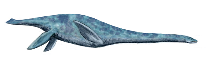 Muraenosaurus leedsi, a plesiosaur from the Late Jurassic of Europe, pencil drawing